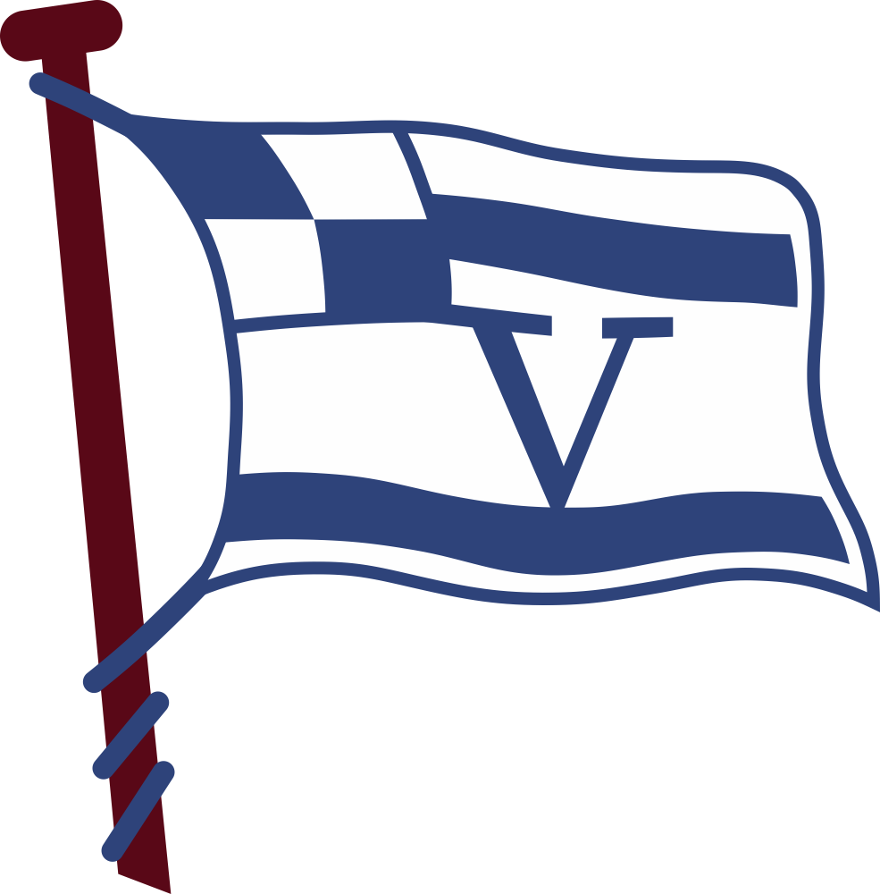 Logo of BTuFC Viktoria 1889 (1889-19XX), original author unknown